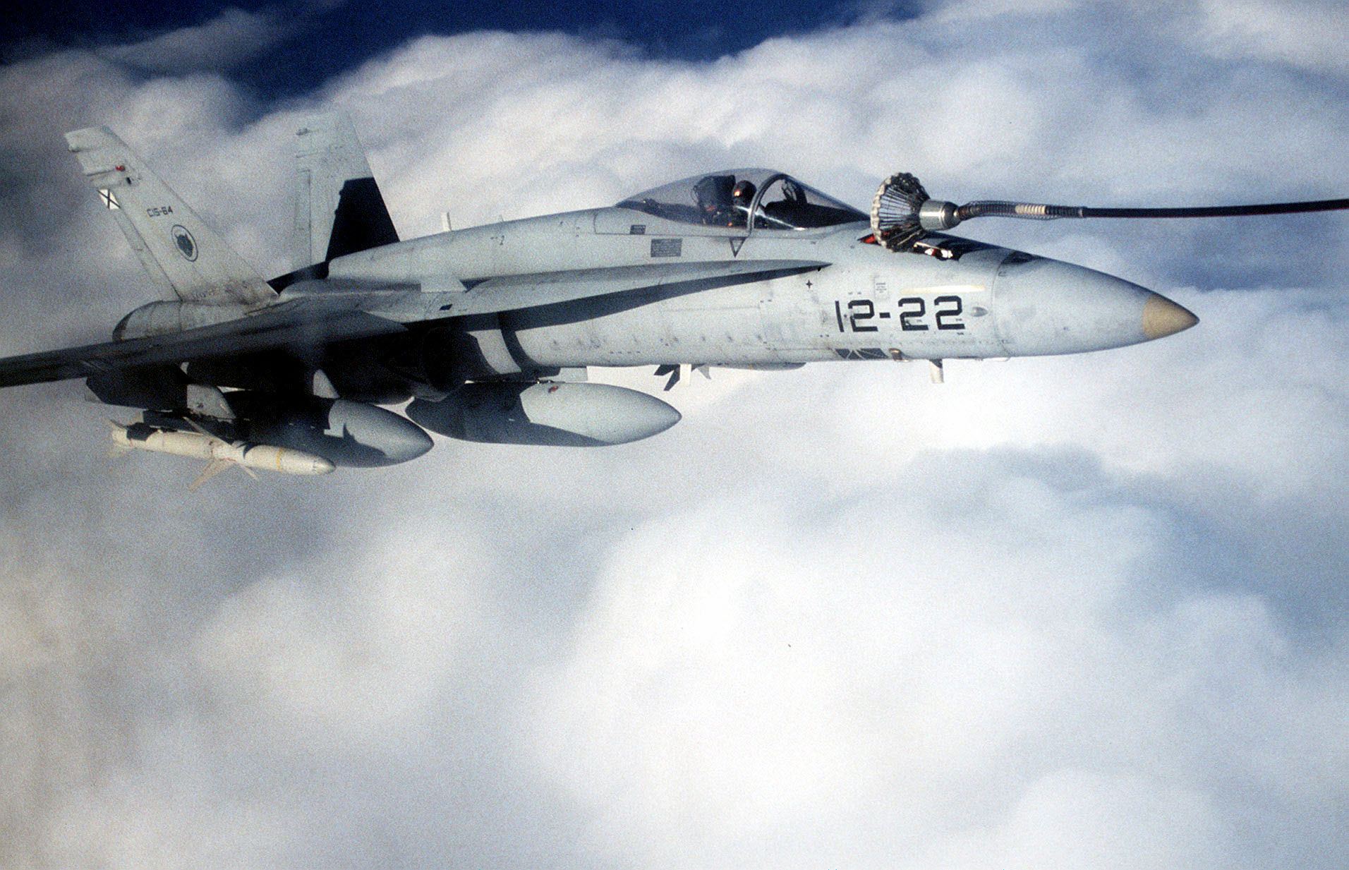 ID: DDSD9903520 Service Depicted: 960213F4867P016 Operation / Series: JOINT ENDEAVORDECISIVE EDGE A Spanish F/A-18 from Aviano AB, Italy, gets refueled by a C-130 over the Adriatic Sea during Operation Decisive Edge in support of Operation Joint Endeavor. Camera Operator: TSGT RUSS POLLANEN